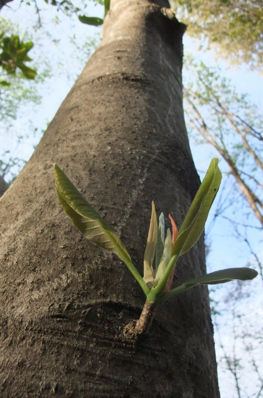 The bark of Magnolia obovata and an adventitious bud on its trunk.